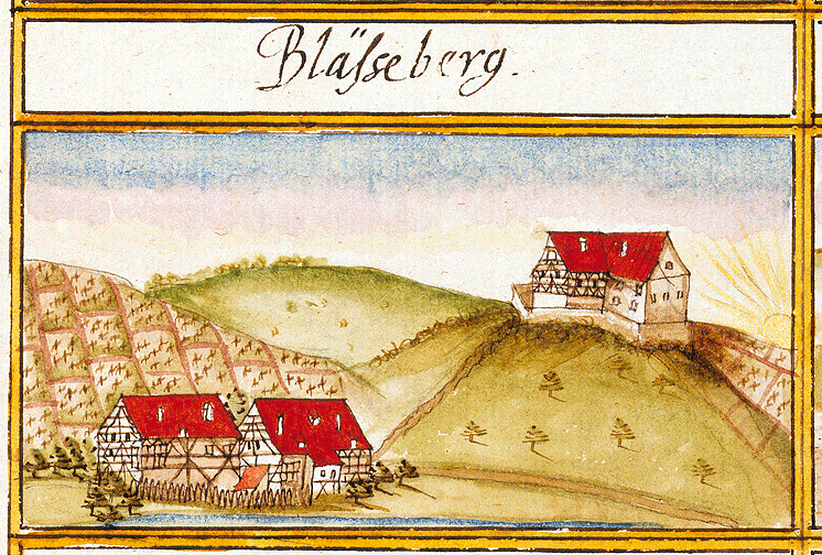 View of Bläsiberg and Bläsibad, Tübingen, from the forest register books created by Andreas Kieser